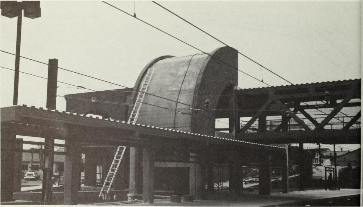 Suffolk Downs station being reconstructed in 1983. The inbound platform had burned in 1976.